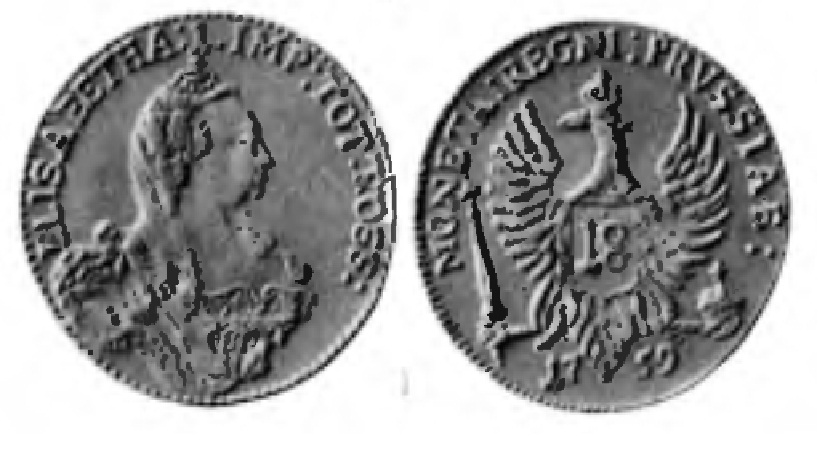 Tympf of Elisabeth 1759